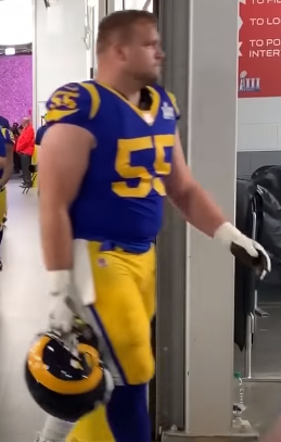 In 2019